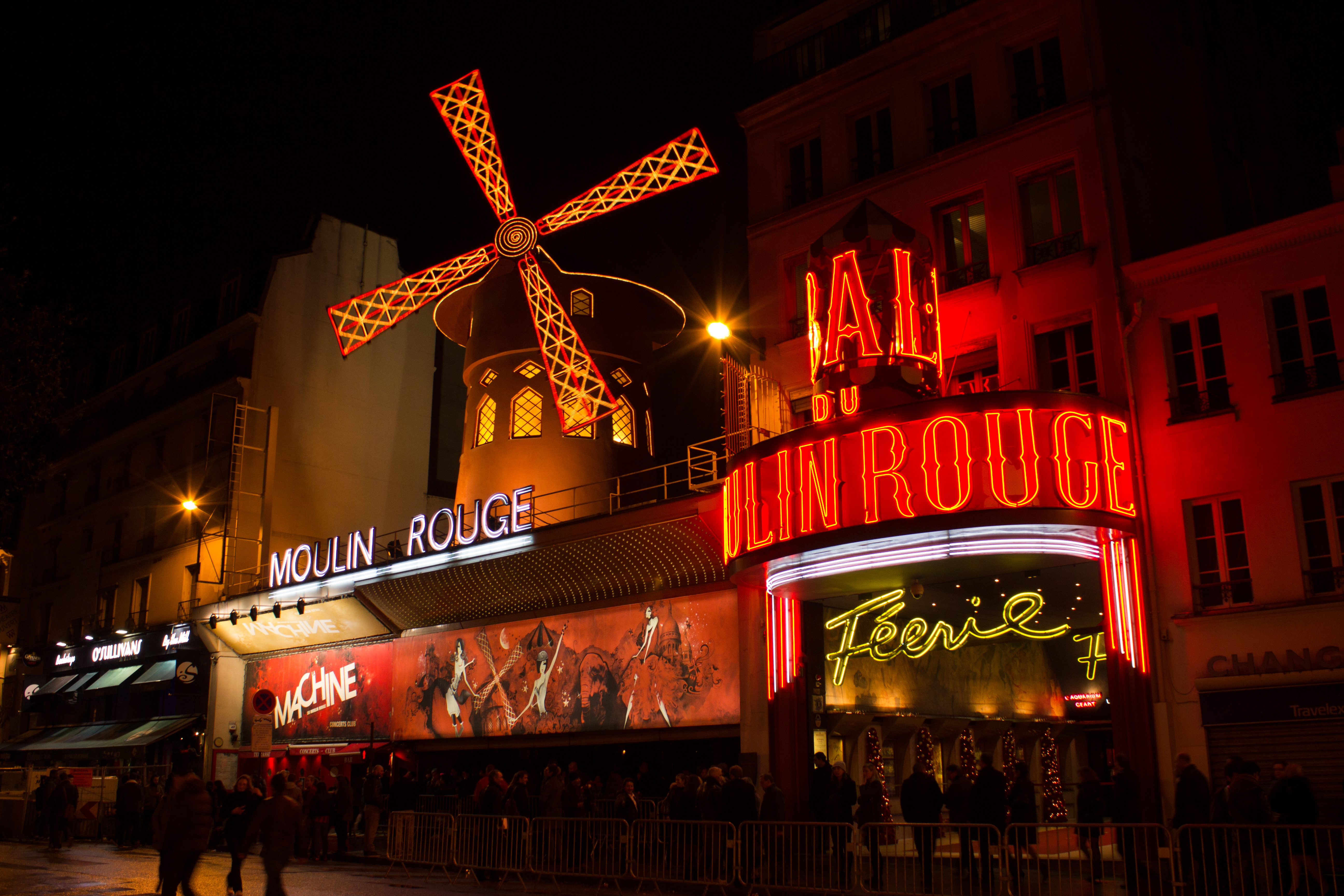 Moulin Rouge